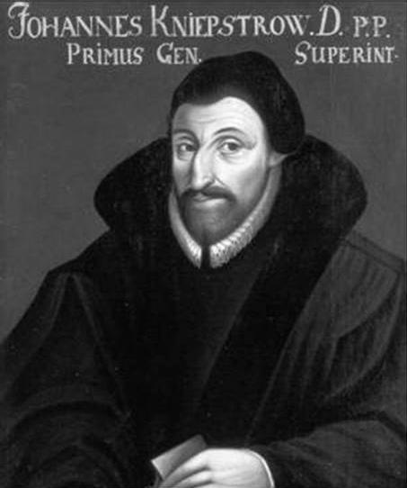 Johannes Knipstro (1497–1556)